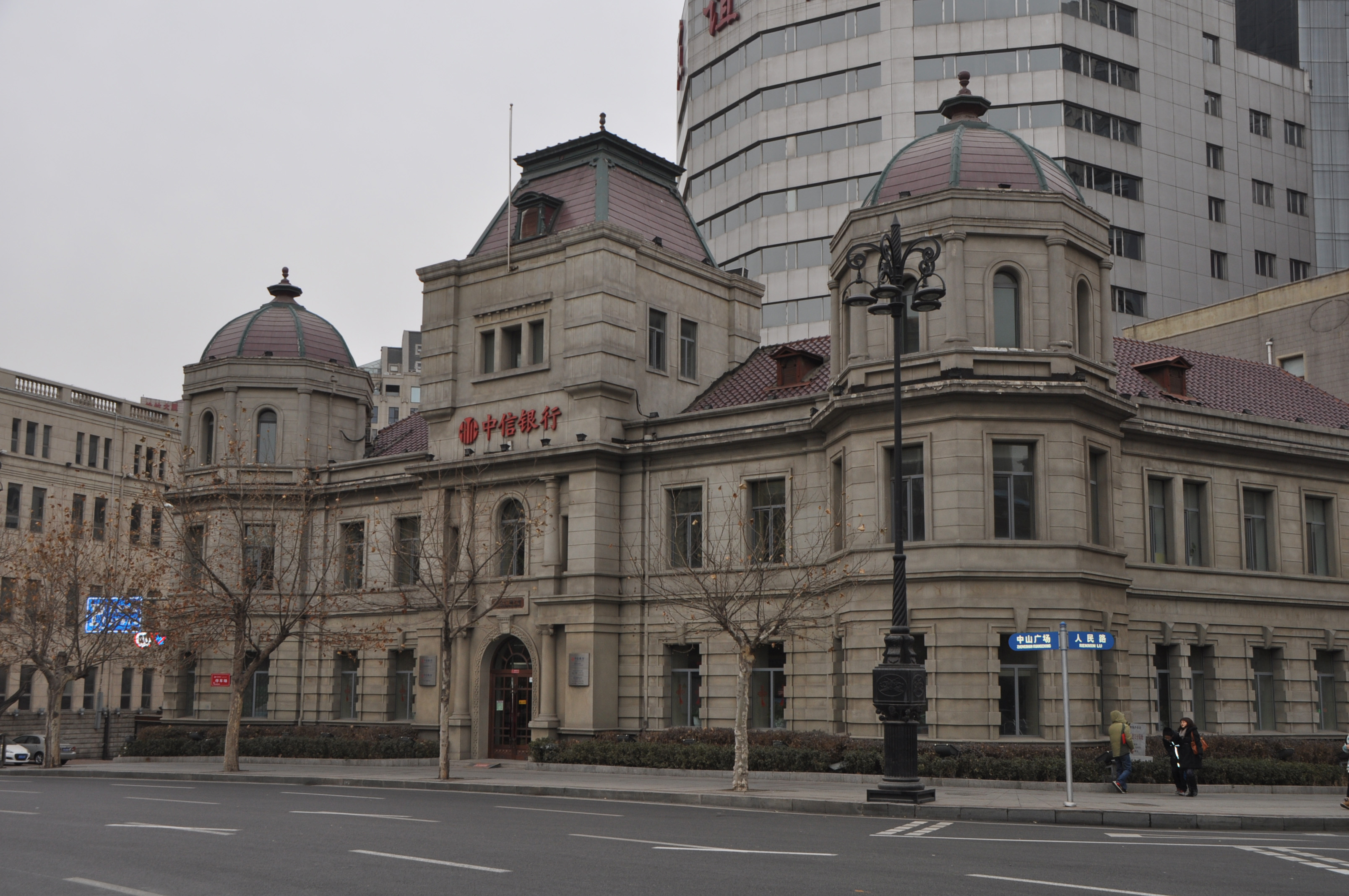 China CITIC Bank (中信银行), Dalian, China